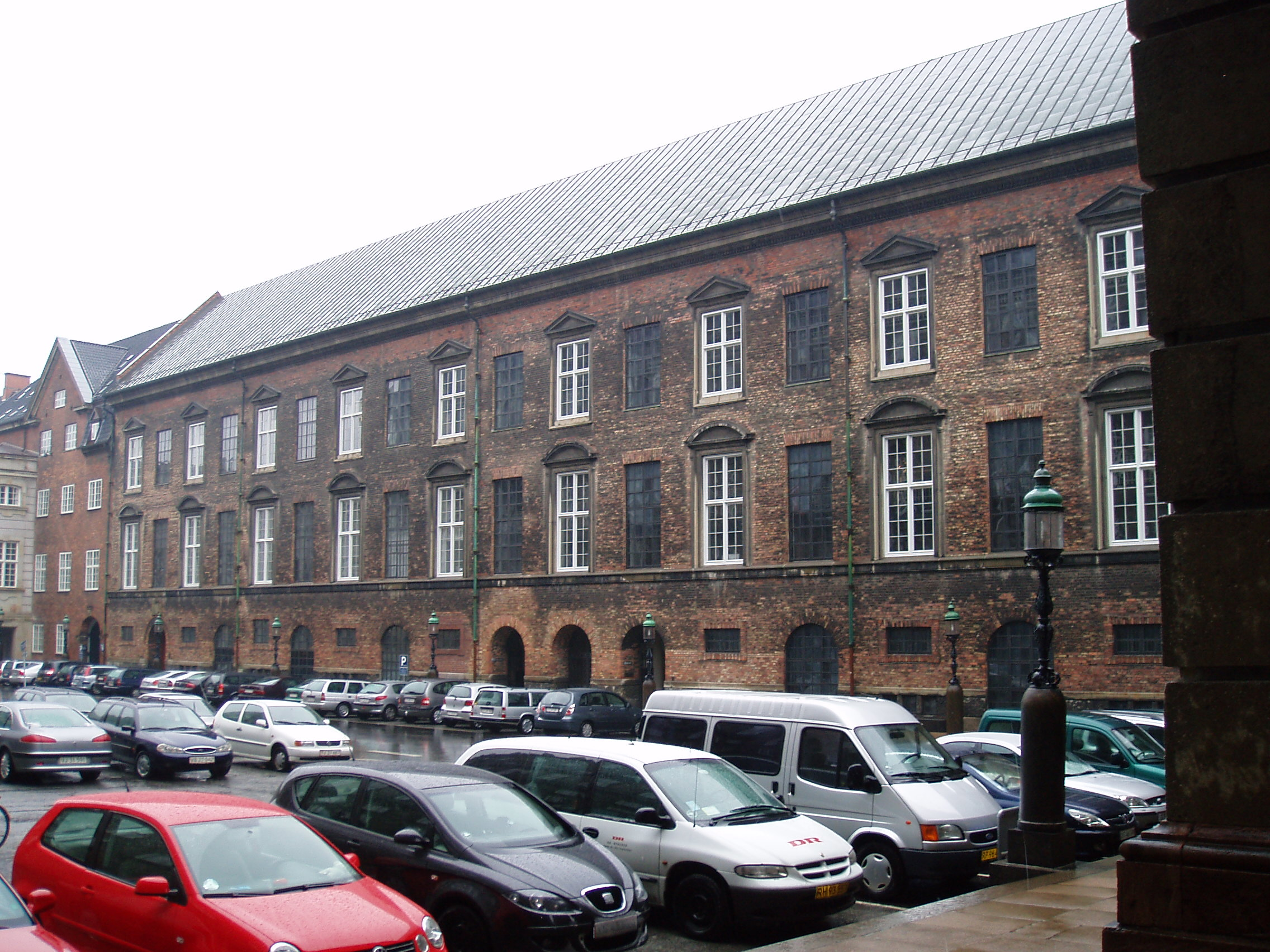 The National Danish Archives.